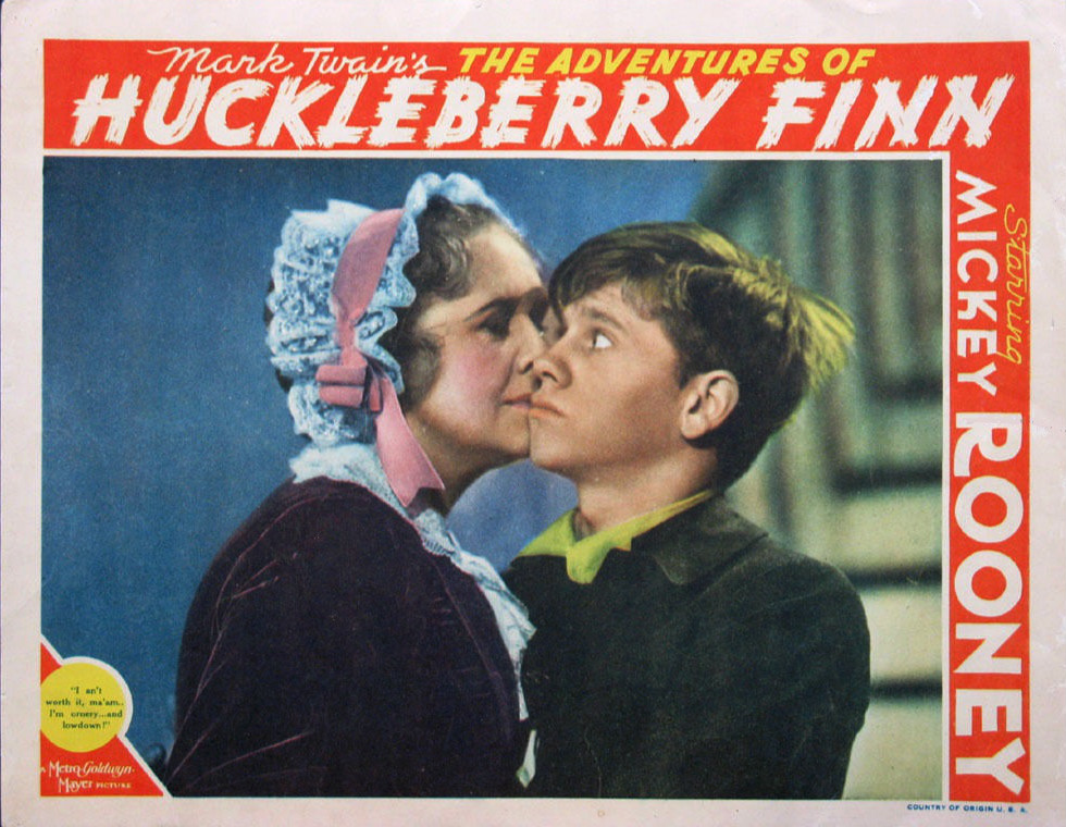 Lobby card for the American film The Adventures of Huckleberry Finn (1939).